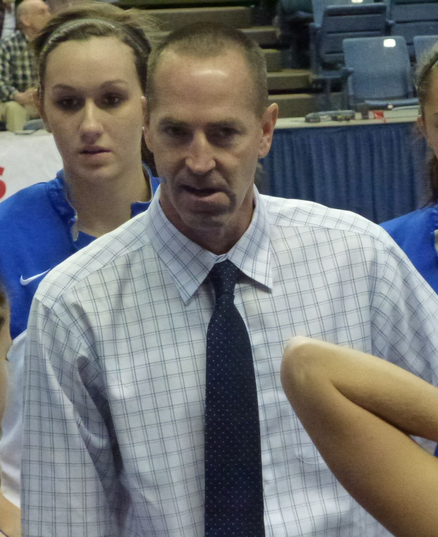 Jim Flanery, head coach Creighton Bluejays women's basketball team, speaking to his team during a timeout in the game between Creighton and UConn, held in Storrs CT.